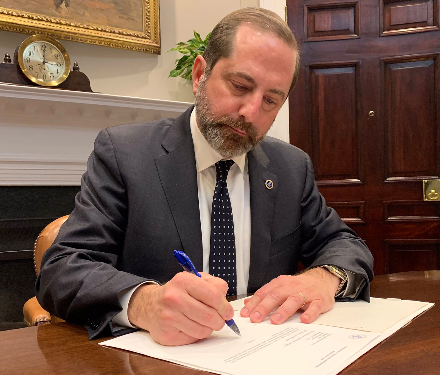 As part of the Administration’s work to protect Americans and respond to the 2019 Novel #Coronavirus outbreak, today I signed a public health emergency declaration.